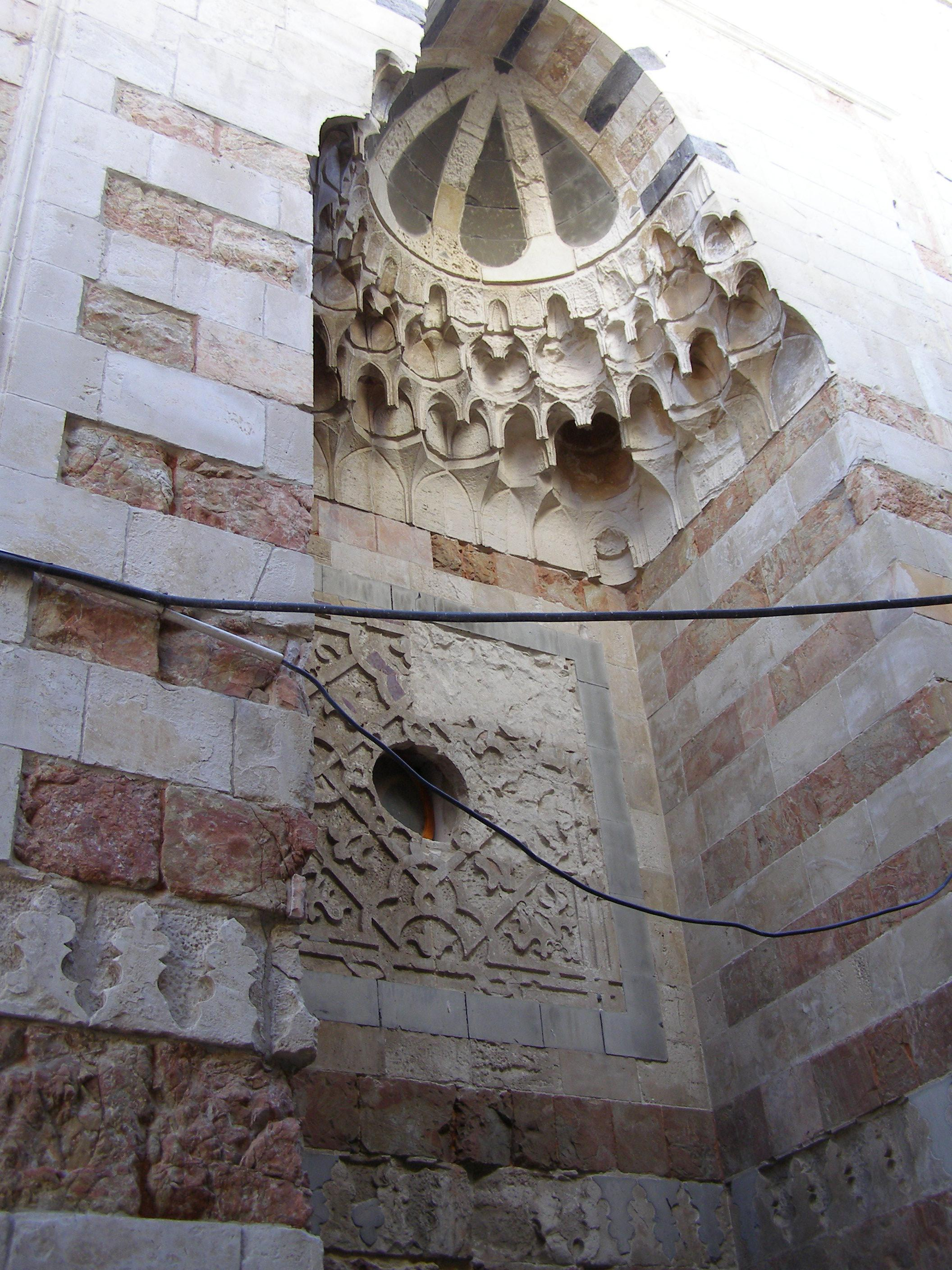 Old Jerusalem, Muslim Quarter, At-Takiyyah ascent, Tunshuk Palace.